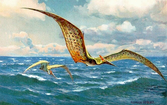 This Painting of Pteranodon was made to illustrate one card of a set of 30 collector cards from "Tiere der Urwelt" (Animals of the Prehistoric World). From the series Ia. The set was inscribed 1916.